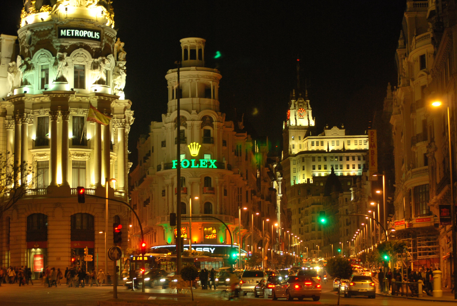 Night view from Calle de Alcalá (street) in Madrid (Spain). Left: Metropolis Building. Center: Grassy Building. Right: Gran Vía (avenue).